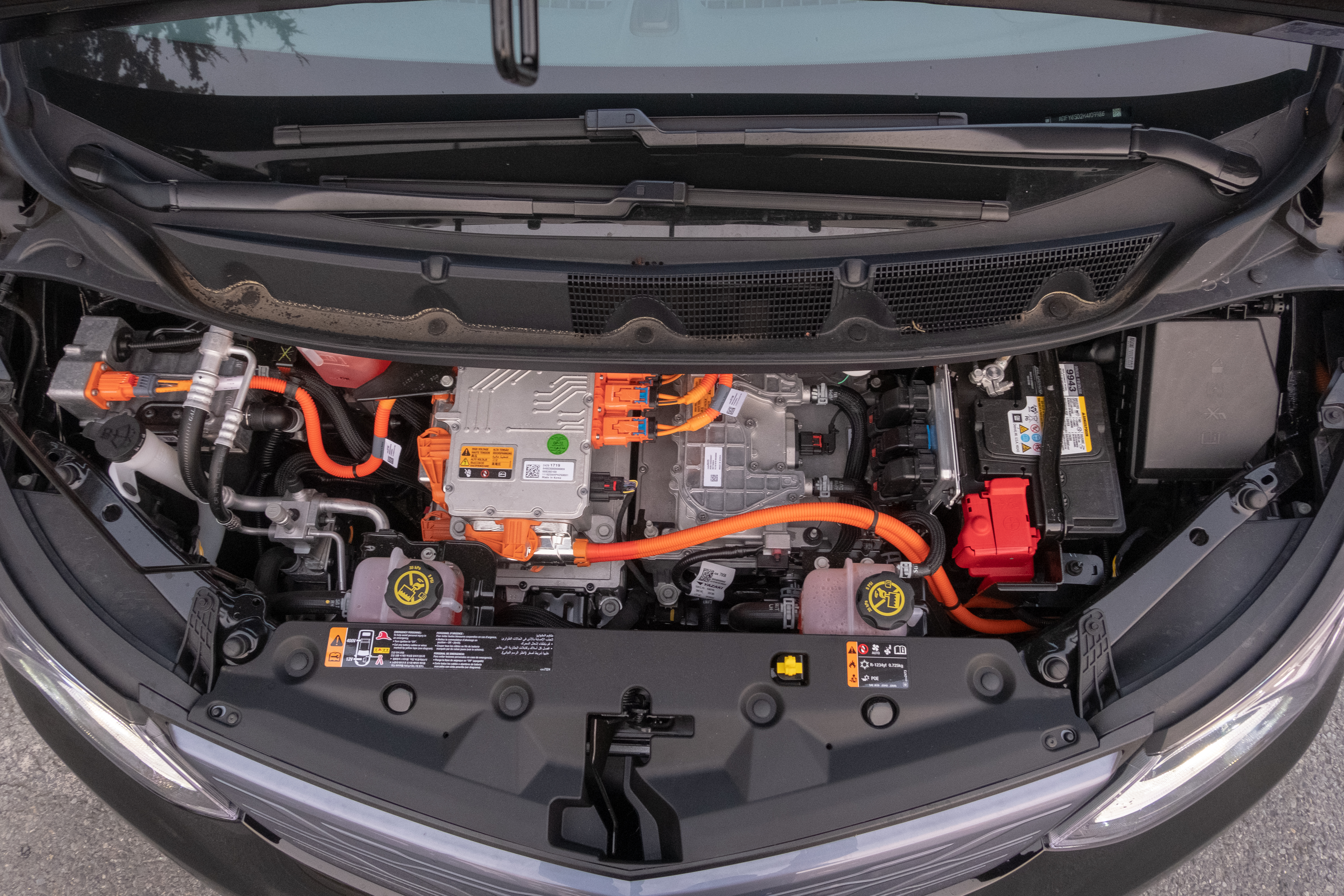 2019 Chevrolet Bolt EV in San Francisco, California in April 2019